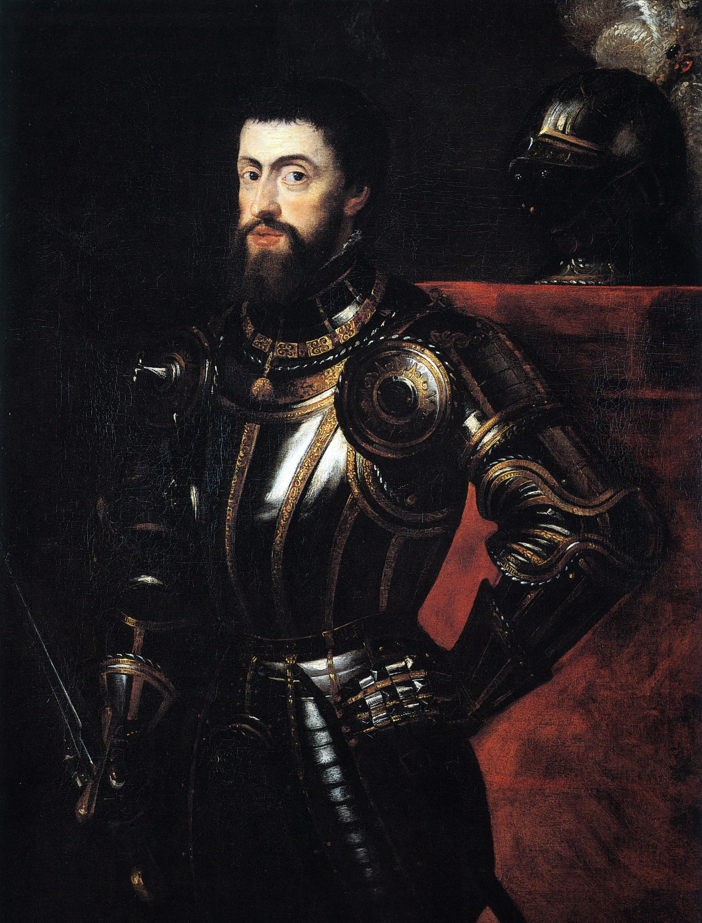 Rubens, After Titian's Charles V in Armor with a Drawn Sword (c.1603)